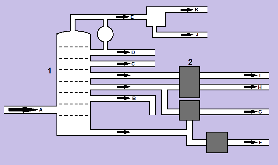 Petroleum distillation tower and distillation products 1 - distillation tower 2 - auxiliary tower A - petroleum B - lubricating oil C - kerosine D - gasoline E - gaseous hydrocarbons F - mazut G - heavy fuel oil H - light fuel oil I - diesel J - propane-butane K - refinery gas Based on a scheme in the book RYBÍN, Miroslav: Spalování paliv a hořlavých odpadů v ohništích průmyslových kotlů (druhé vydání), Státní nakladatelství technické literatury, Praha 1985